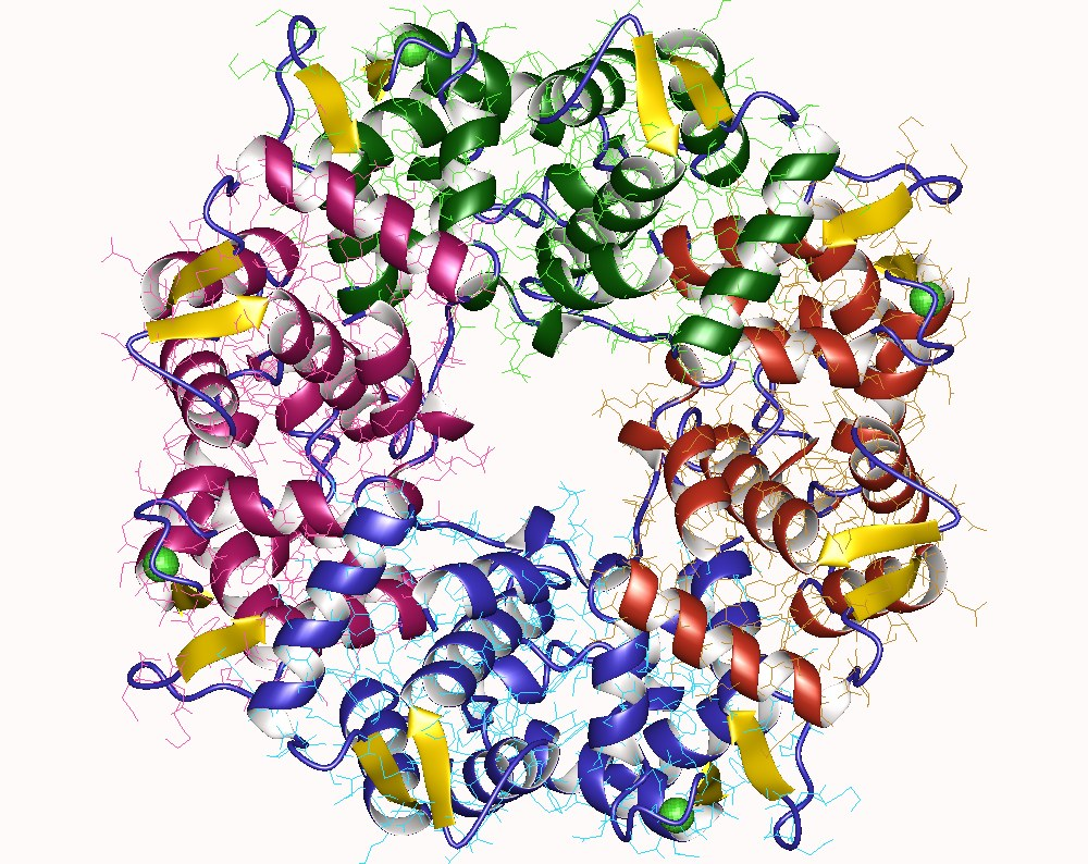 Recoverin tetramer + 4 Ca (green), Bos taurus